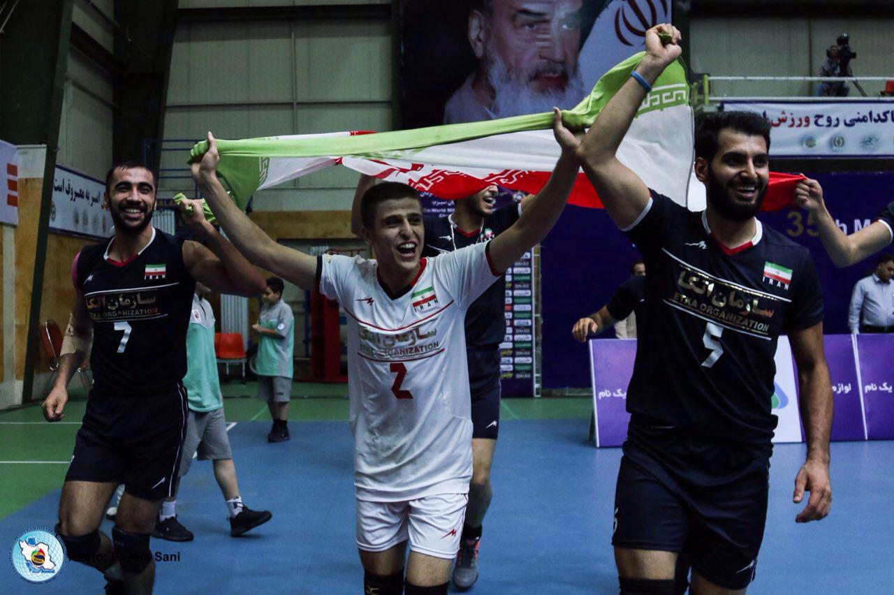 ارتش جهان